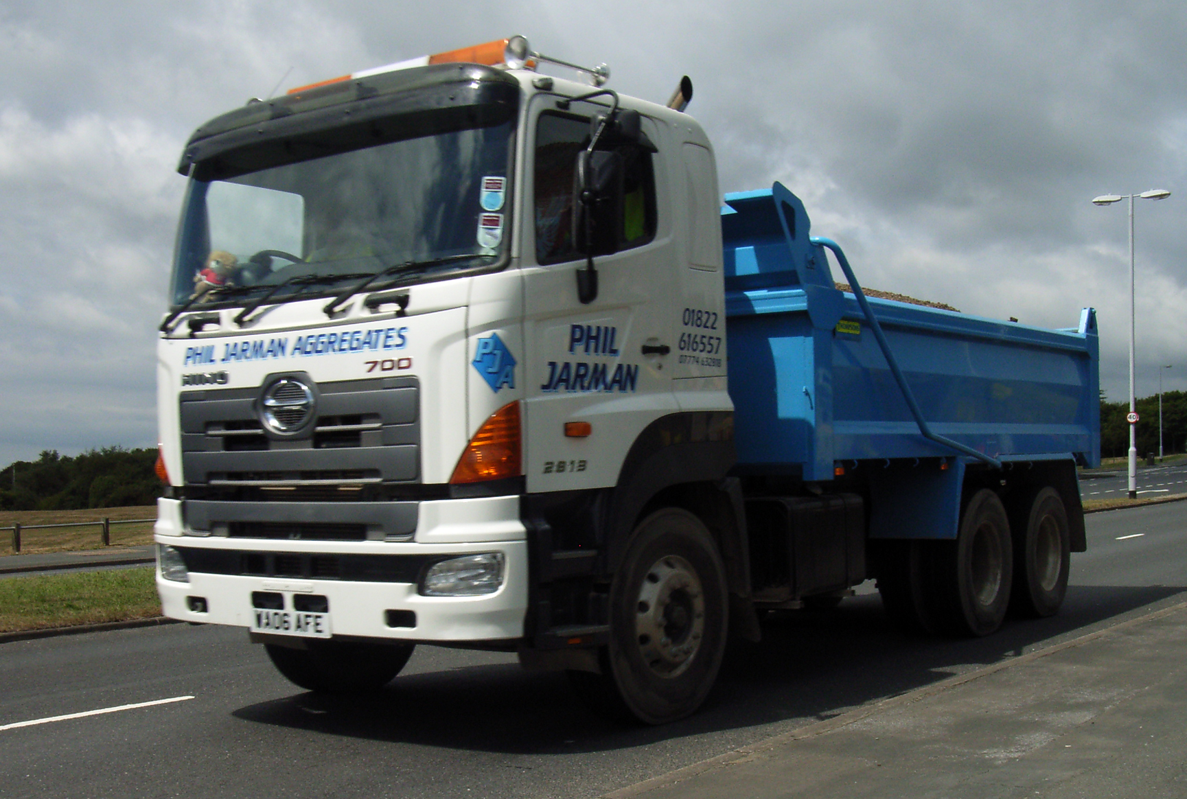 Phil Jarman Plymouth Hino